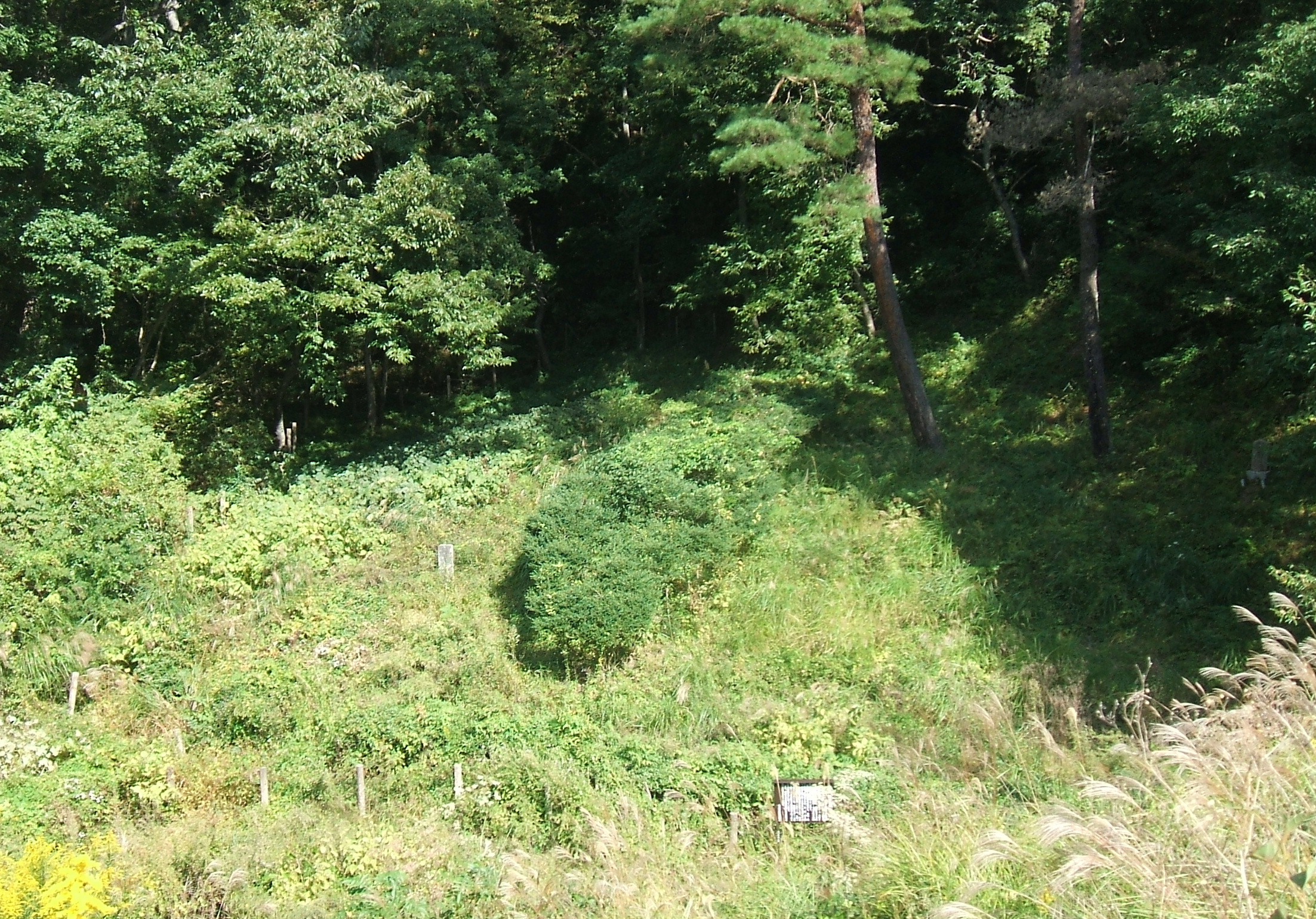 Himetani yaki Pottery